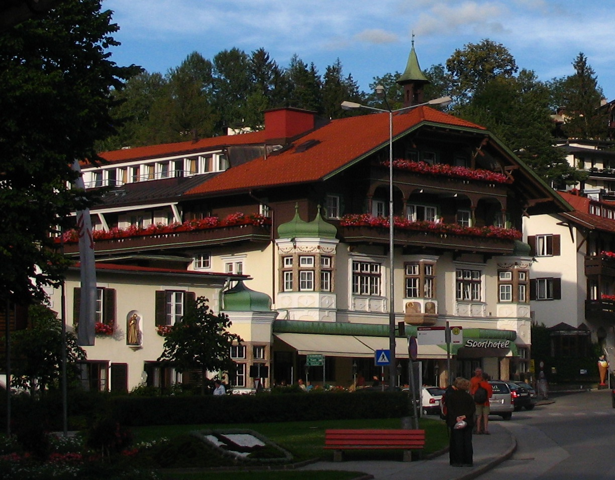 Sporthotel, Igls, Austria This media shows the remarkable cultural object in the Austrian state of Tyrol listed by the Tyrolean Art Cadastre with the ID 127877. (on tirisMaps, on tirisdienste.at, pdf, more images on Commons)